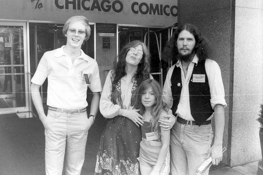 At Chicago ComicCon 1977, Alan Light poses with Catherine Yronwode and her daughter Althaea, and Denis McFarling.